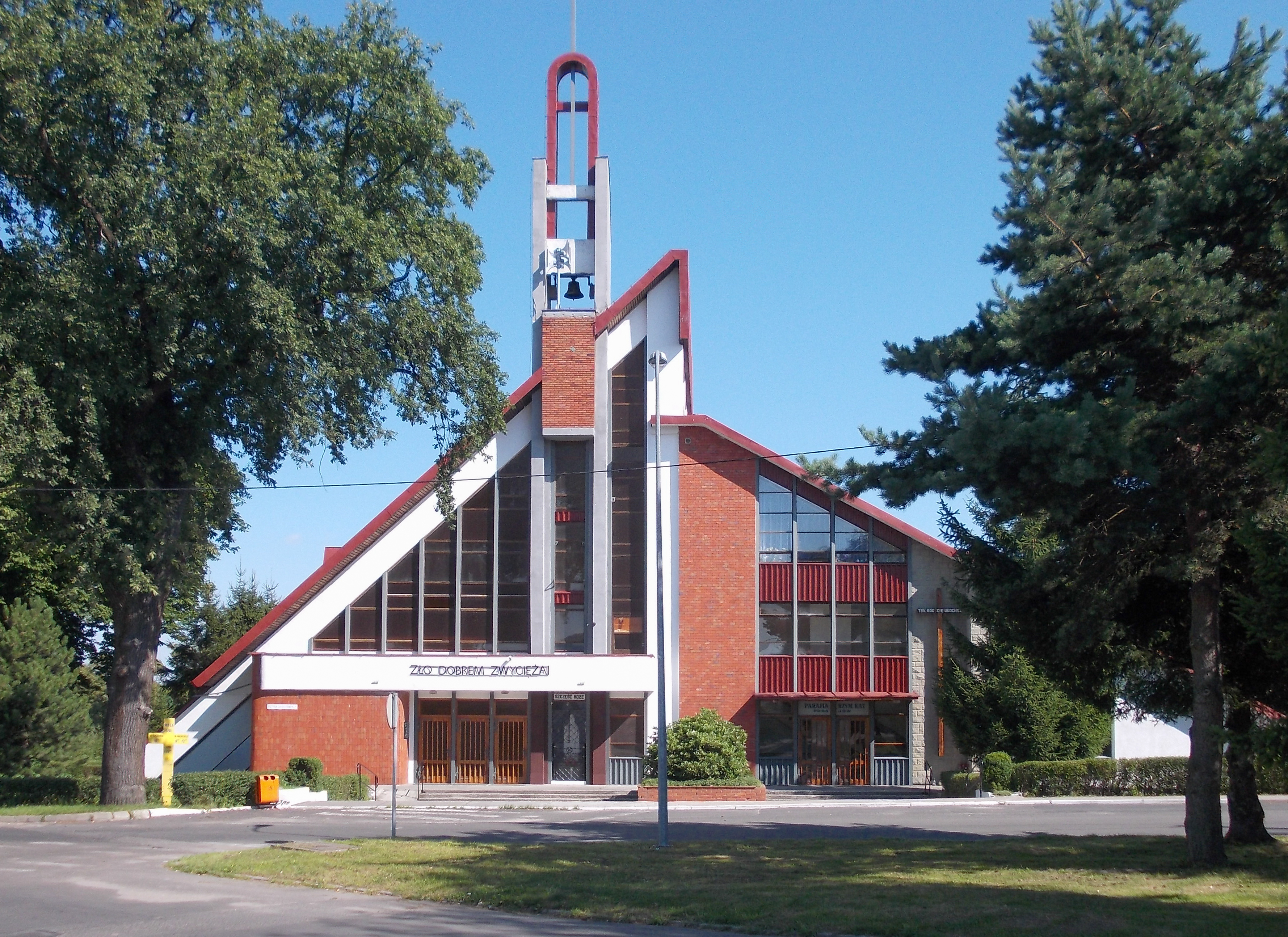 The Sacred Heart church in Porajów (municipality of Bogatynia)